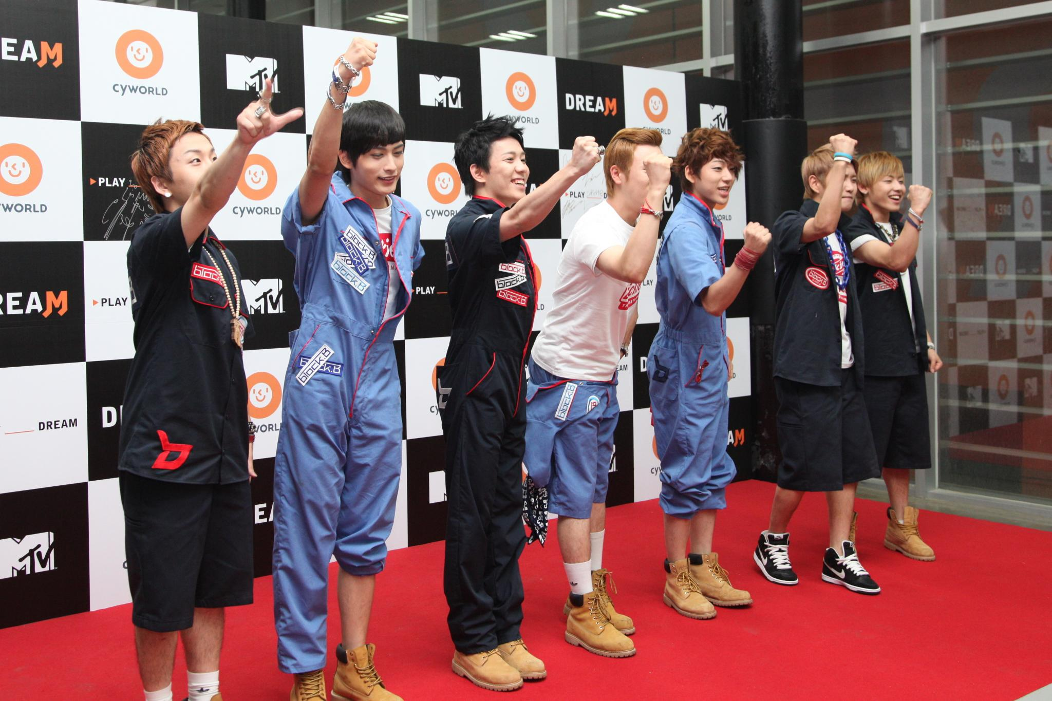 Block B Cyworld Dream Music Festival 싸이월드 드림 뮤직 페스티벌 풍경_24